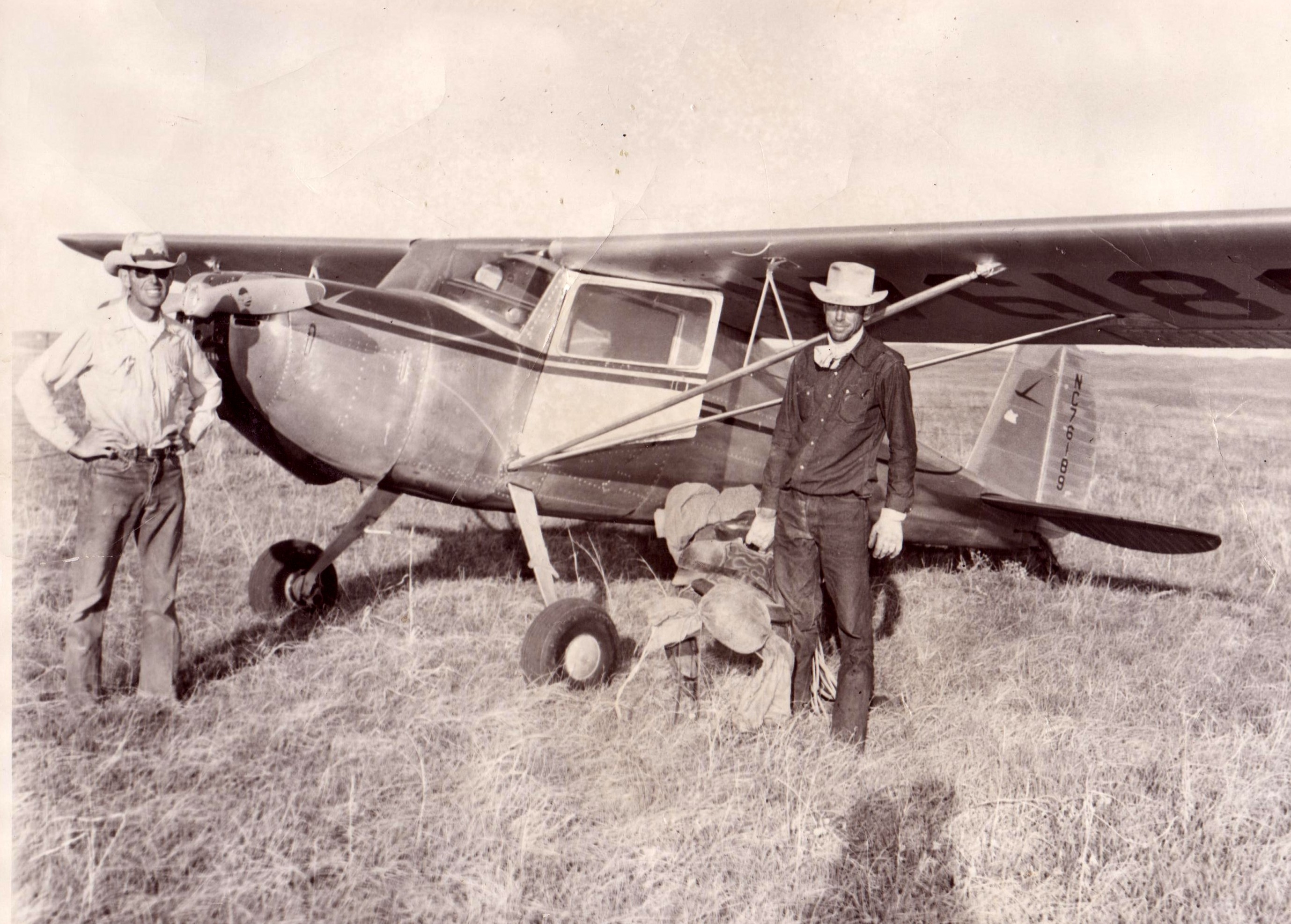 Photo taken in 1964 in the Nebraska Sandhills.